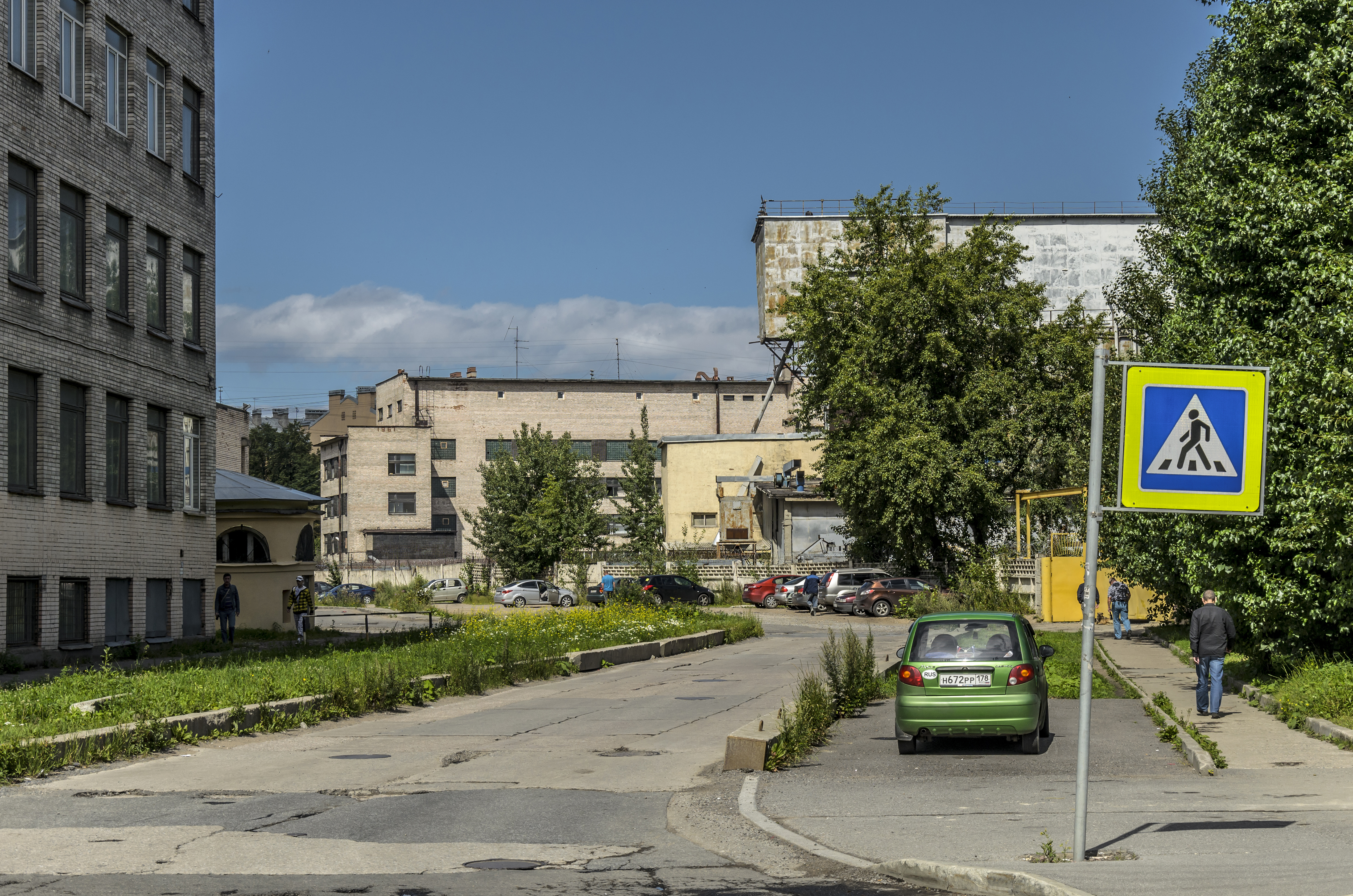 Nameless Passage near Ivana Chernyh Street in Saint Petersburg